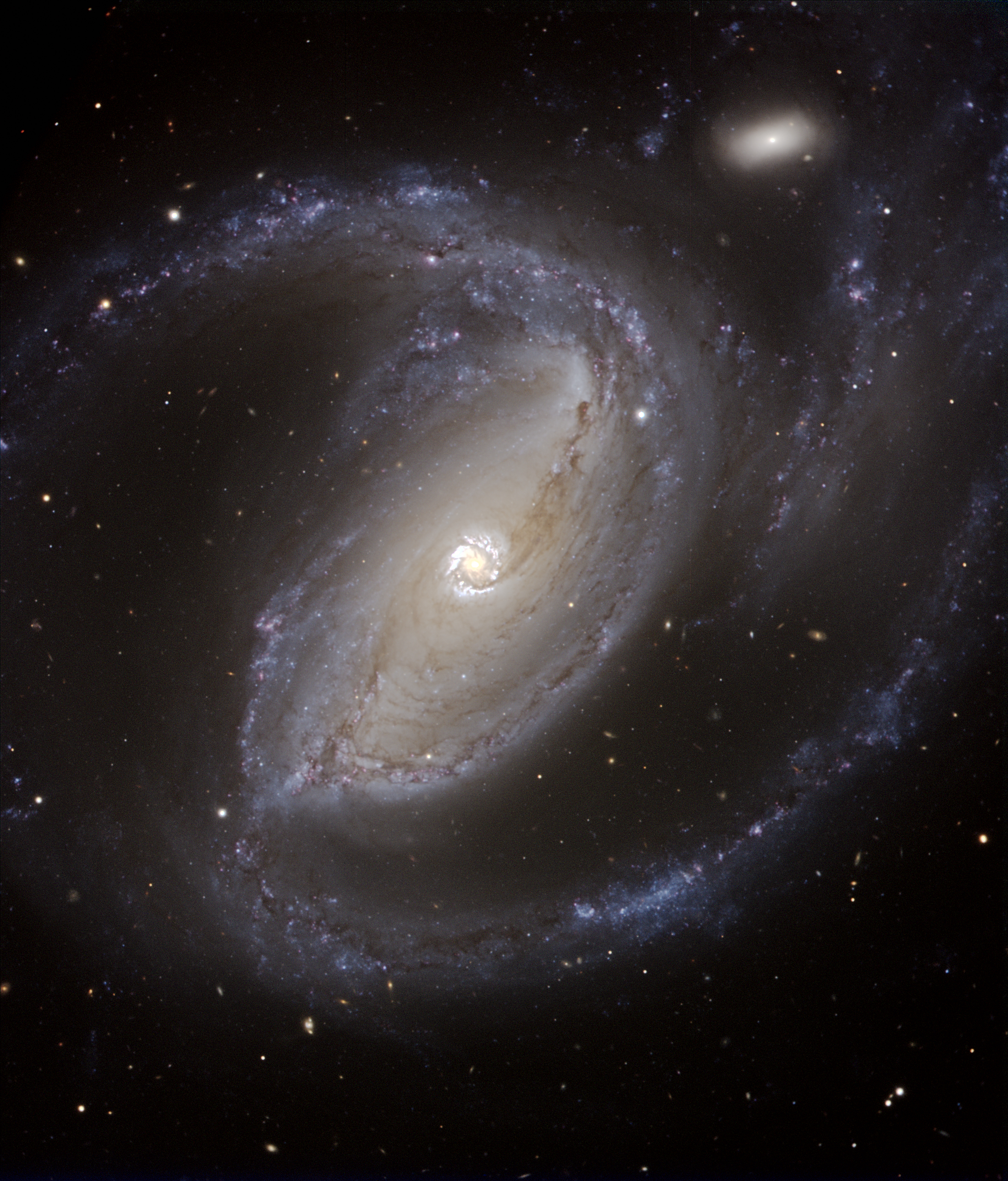 Spiral galaxy NGC 1097 It is an almost-true colour composite based on images made with the multi-mode VIMOS instrument on the 8.2-m Melipal (Unit Telescope 3) of ESO's Very Large Telescope. Exposures were taken in three different wavebands which were associated to a given colour : R-band (centred around 652 nm; red), V (540 nm; green) and B (456 nm; blue). The images were taken on the night of December 9 to 10, 2004 in the presence of the President of the Republic of Chile, M. Ricardo Lagos. The observing conditions were very good (seeing well below 1 arcsec). The total exposure was 2.25 min in R, 3 min in V and 6 min in B. The scale is 0.205 arcsec/pix and the image covers a 7.7 x 6.6 arcmin2 region on the sky. All exposures were taken and pre-processed by ESO Paranal Science Operation astronomers. Additional image processing by Henri Boffin (ESO). Credit: ESO Coordinates Position (RA): 2 46 19.04 Position (Dec): -30° 16' 29.62" Field of view: 6.85 x 7.74 arcminutes Orientation: North is 0.1° left of vertical Colours & filters Band Wavelength Telescope Optical B 456 nm Very Large Telescope VIMOS Optical V 540 nm Very Large Telescope VIMOS Optical R 652 nm Very Large Telescope VIMOS .